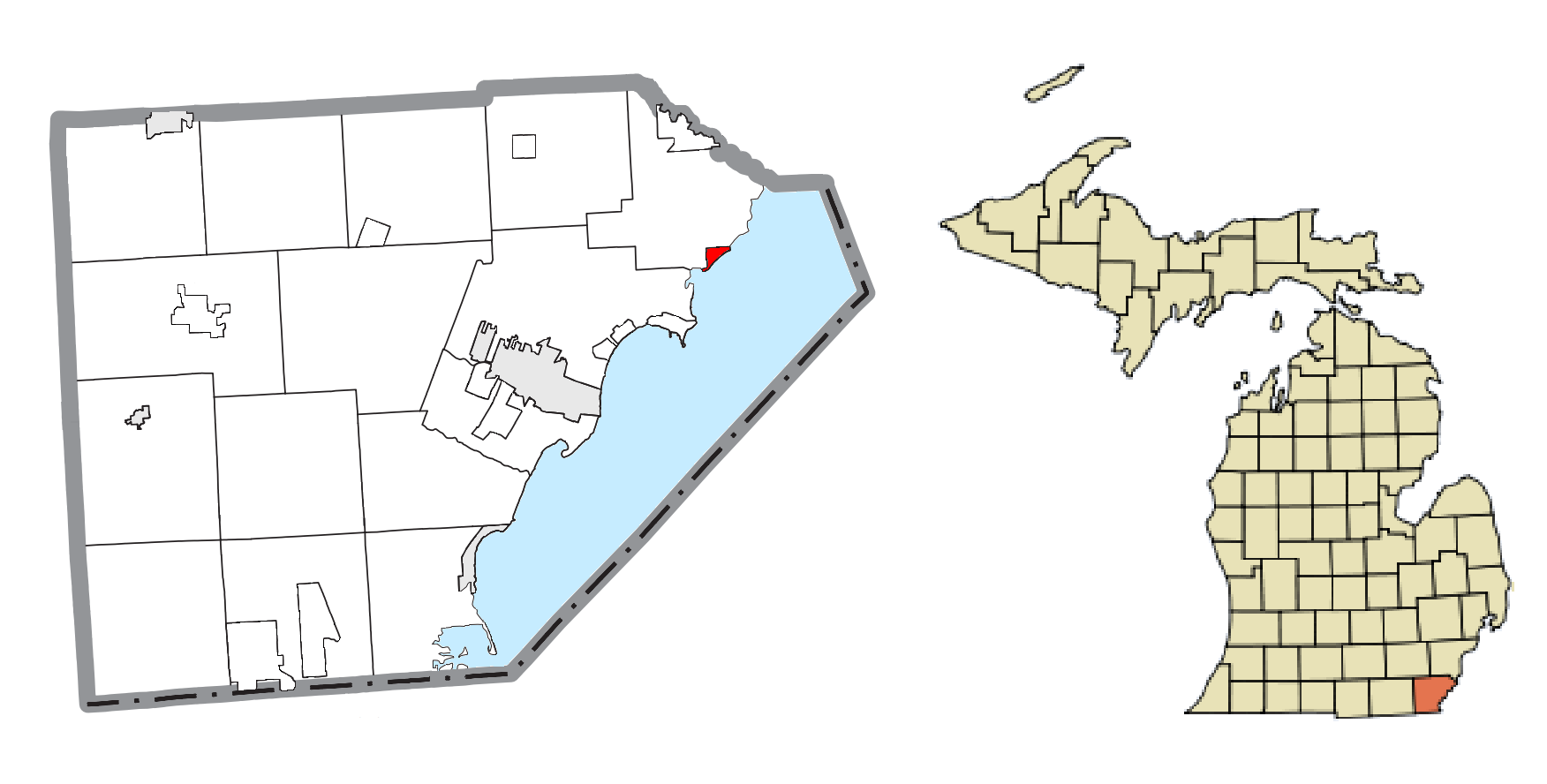 Estral Beach, MI